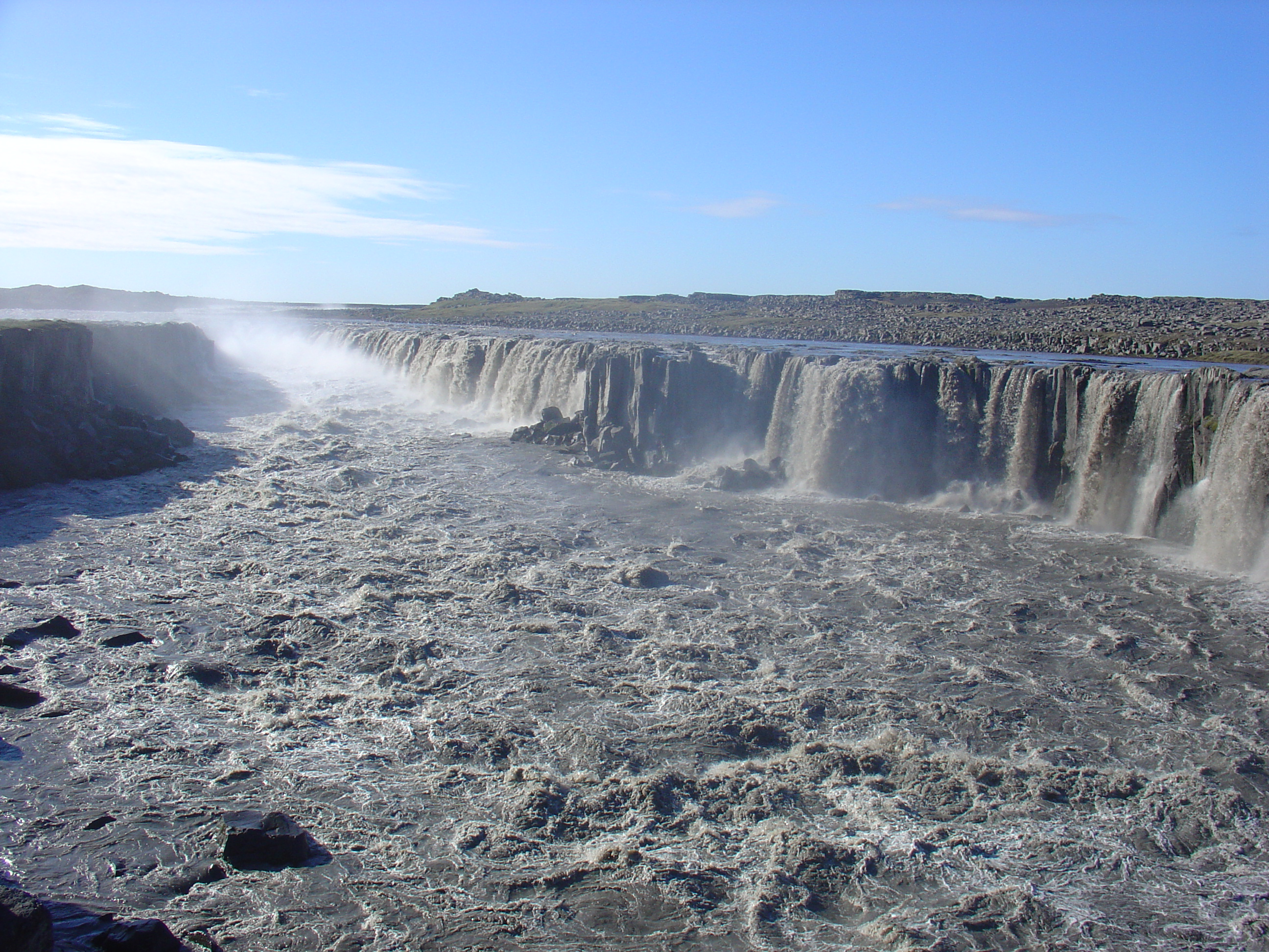 Waterfall Selfoss - Northern Iceland